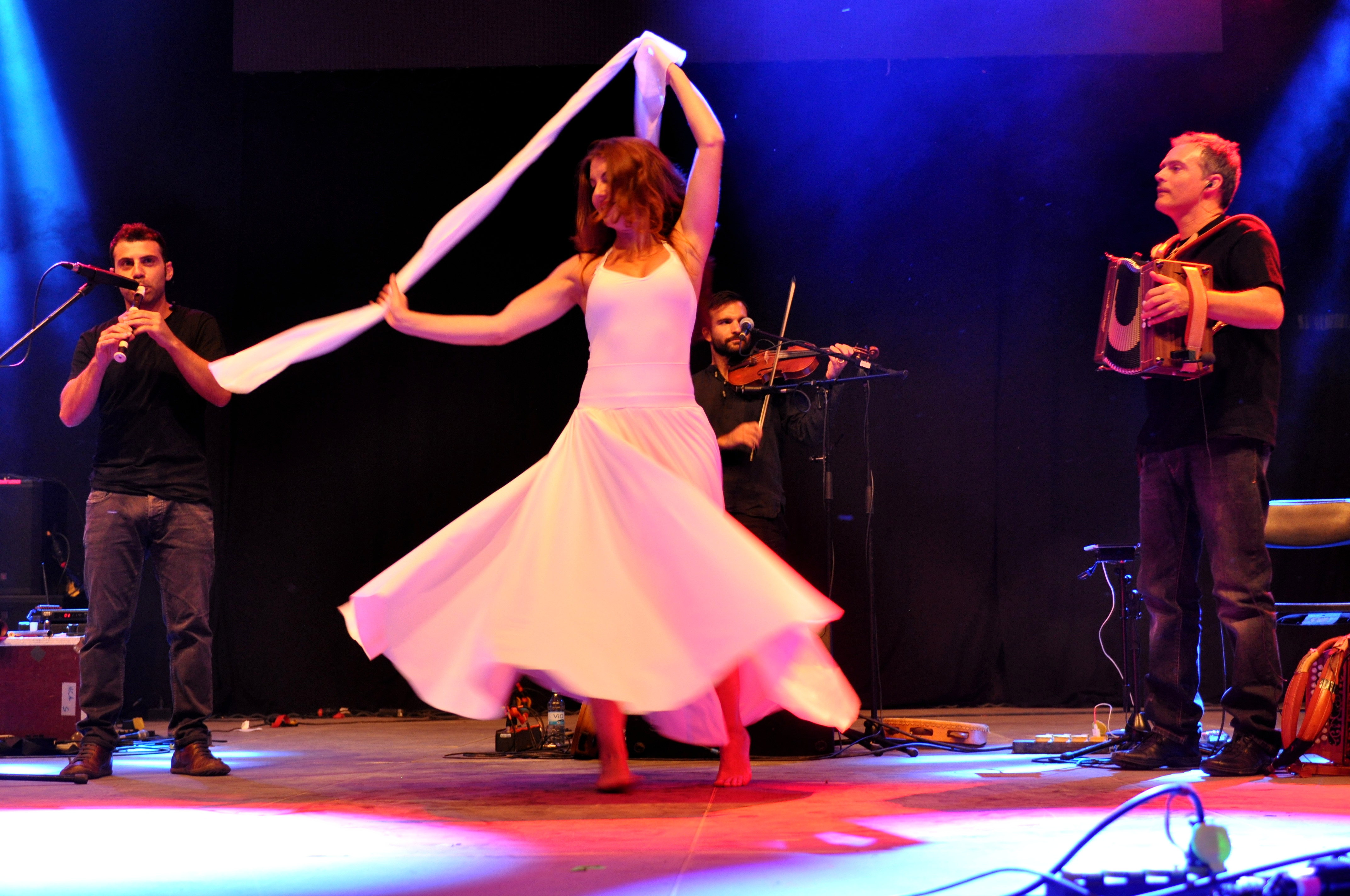 Canzoniere Grecanico Salentino (ITA), World Music Festival Horizonte 2015, Fortress Ehrenbreitstein, Koblenz, Rhineland-Palatinate, Germany Festivalsommer This photo was created with the support of donations to Wikimedia Deutschland in the context of the CPB project "Festival Summer".